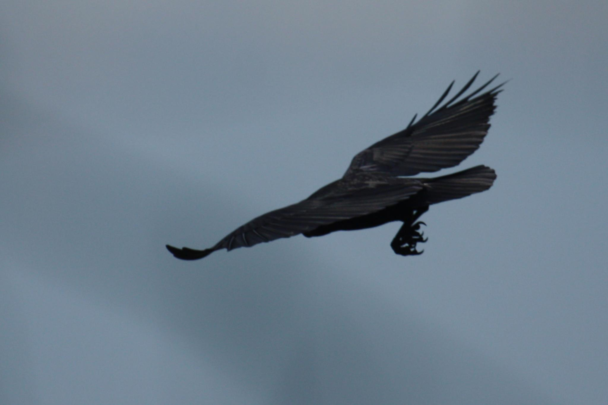 A Fan-tailed Raven in Ethiopia.